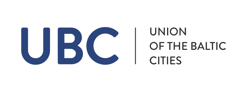 UBC official logo since 2012